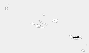 Map of the Azores highlighting Ribeira Grande.